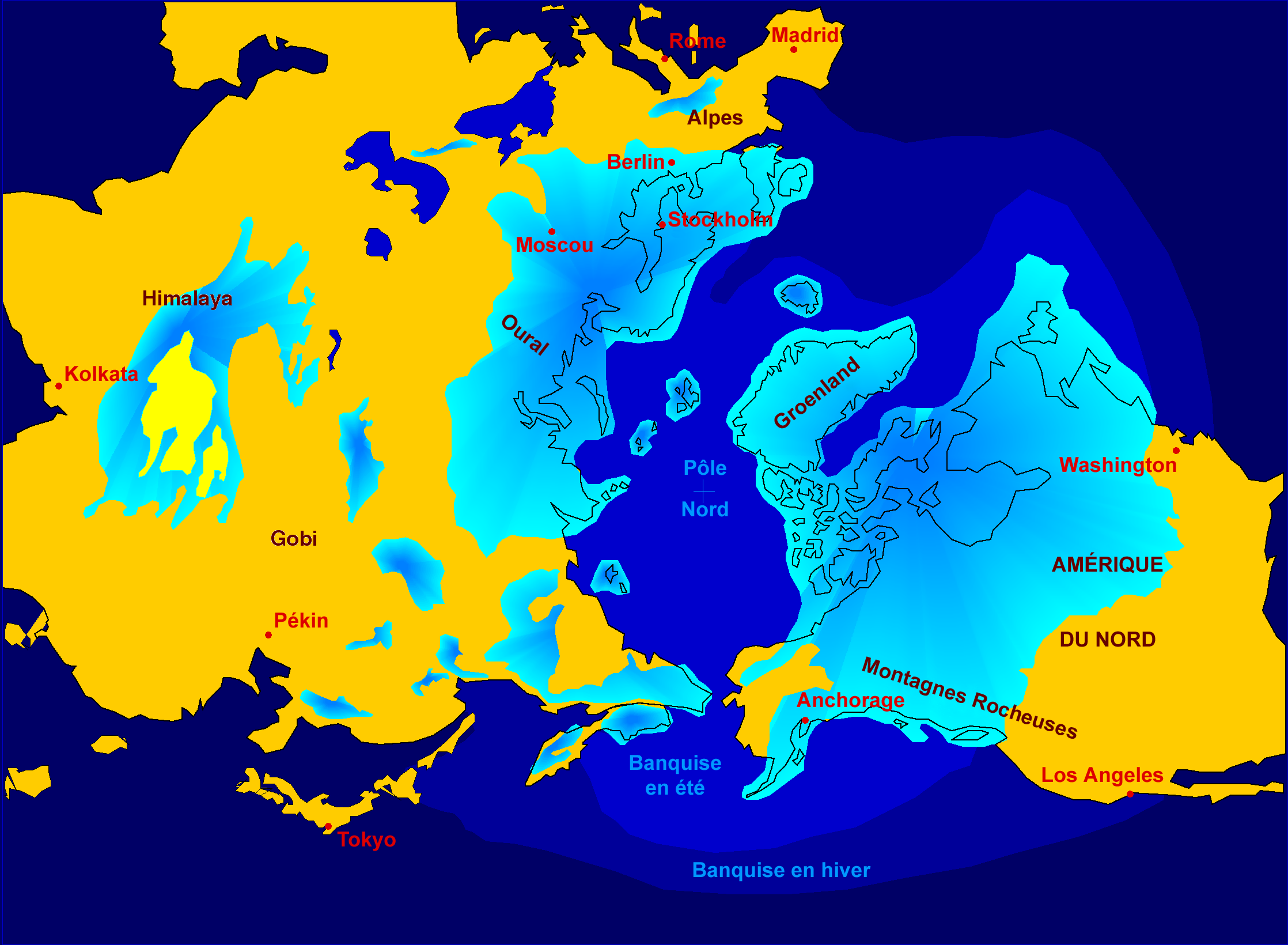 Northern hemisphere glaciation during the last ice ages. The set up of 3 to 4 km thick ice sheets caused a sea level lowering of about 120 m. Also the Alps and the Himalaya were covered by glaciers. The limit of winter sea ice coverage was much more to the south.